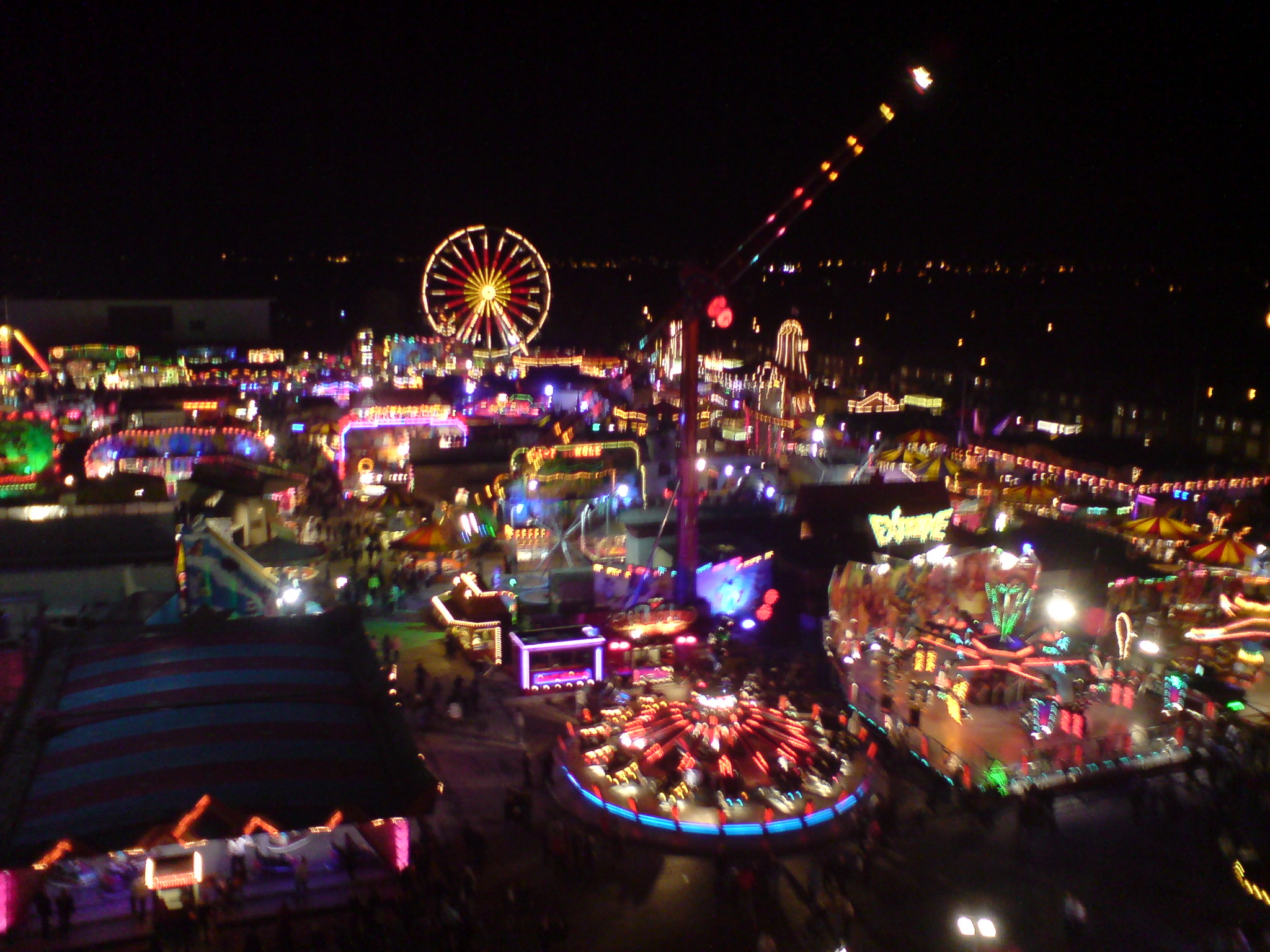 Photograph of Hull Fair at night from 200 feet, Taken October 13th 2007 from approximate 200 feet up on a Big Wheel.